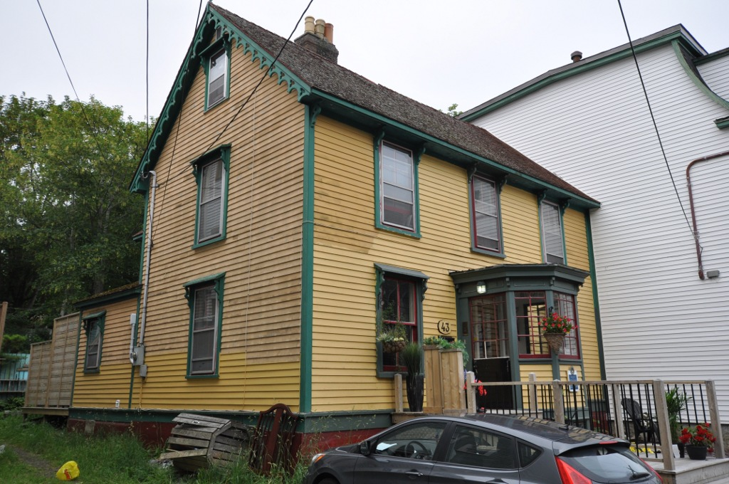 Harris Cottage, 43 Monkstown Road, St. John's, Newfoundland.